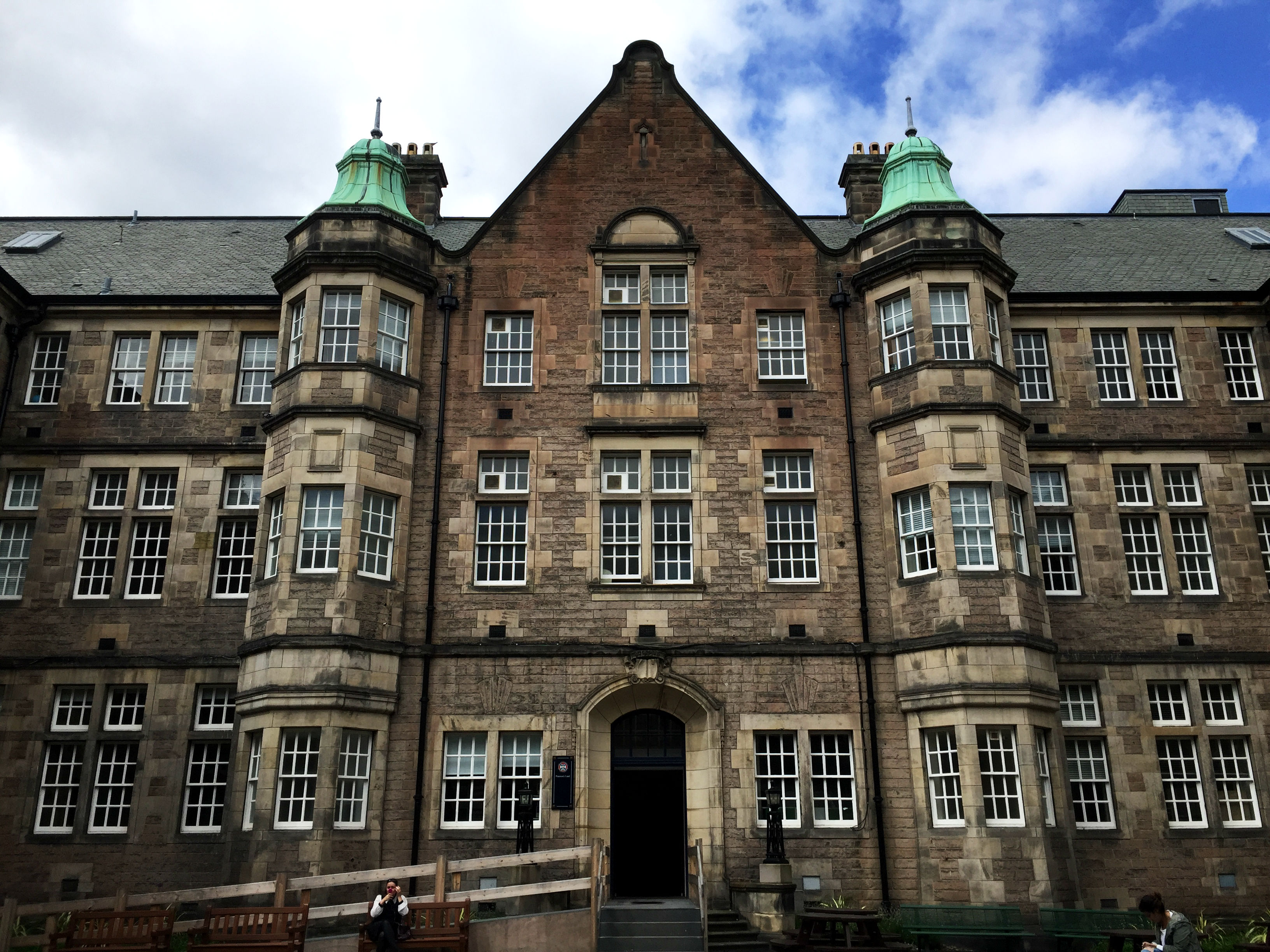 Entrance to Paterson's Land from the quad Photograph taken by Annie Caldwell